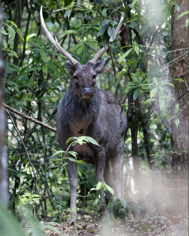 Sambar Deer - male (stag). Cervus unicolor. Khao Yai, Thailand 18th. January 2009